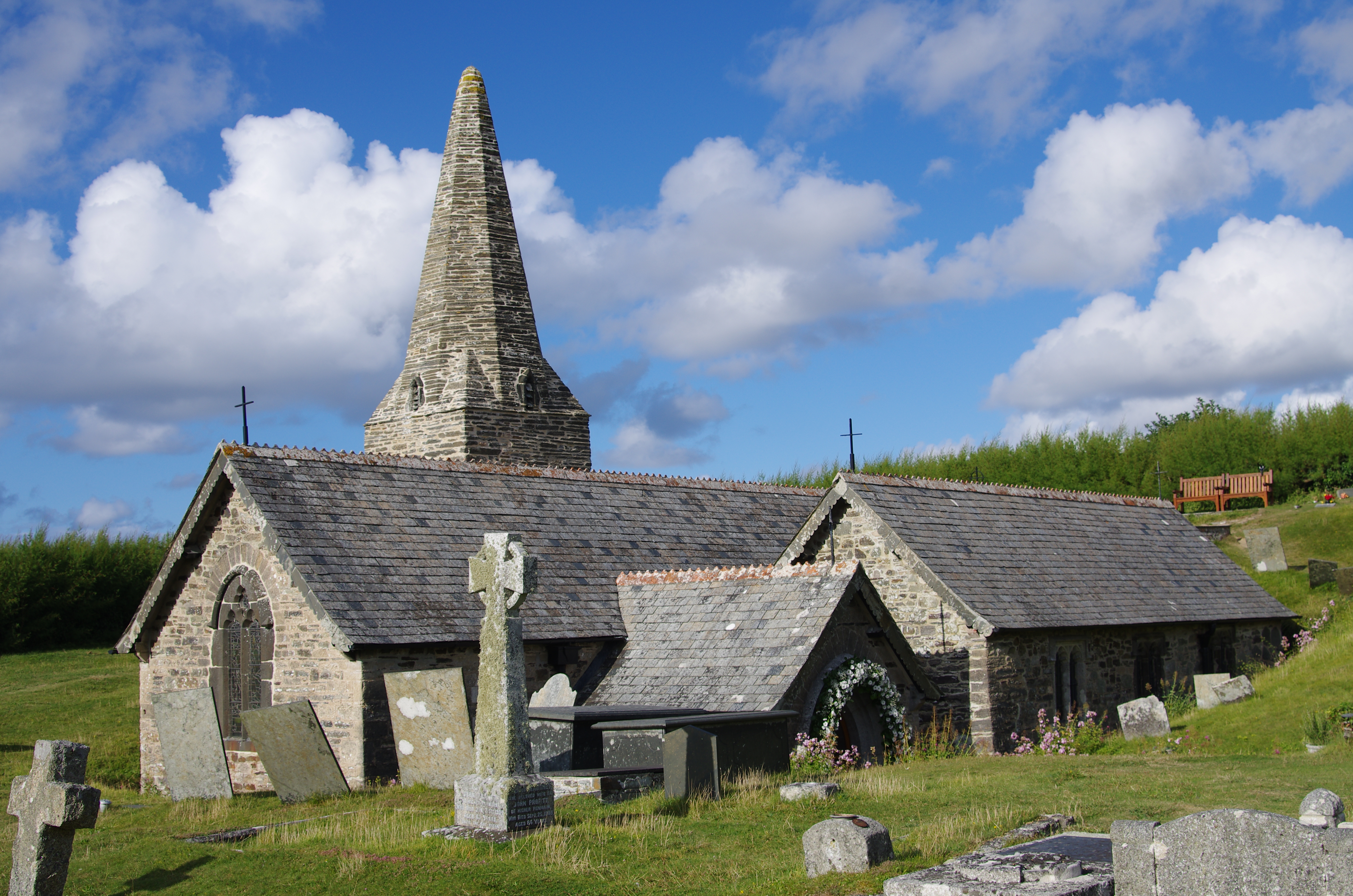 12th Century Church in the Dunes behind Daymer Bay. Grade I listed by English Heritage. View from the south west.